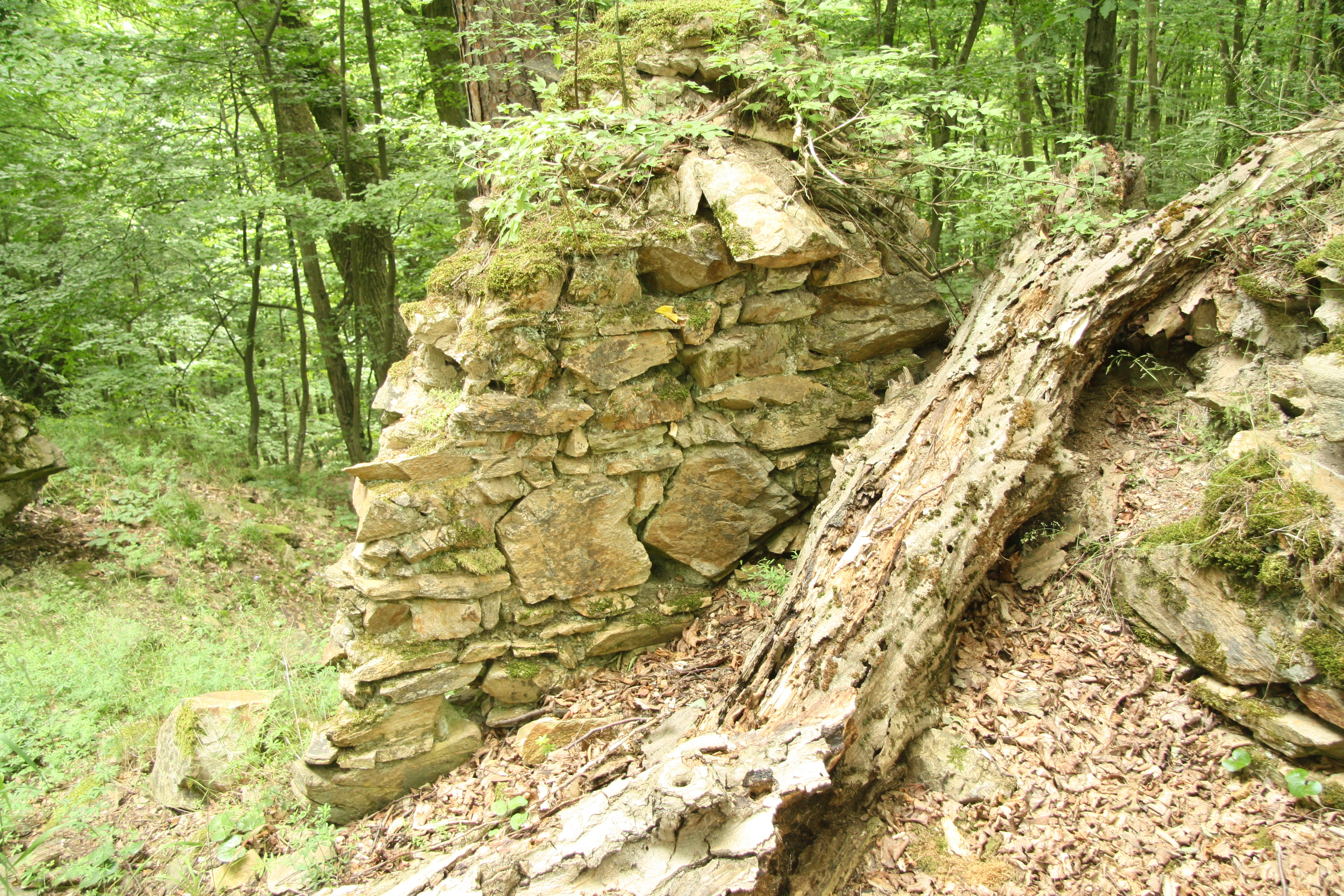 Old wall of Sedlec Castle near Sedlec, Třebíč District.